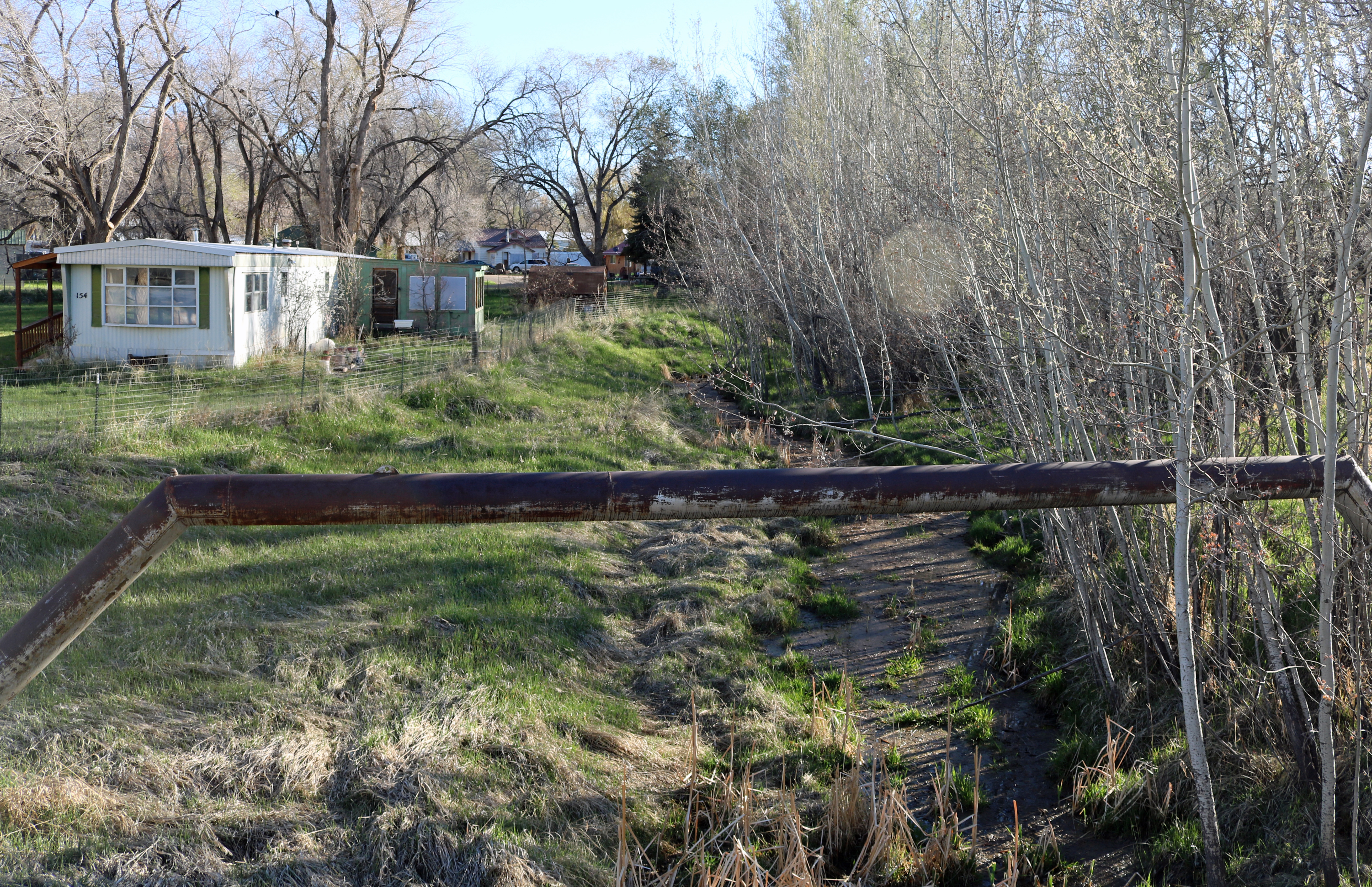 Dove Creek, a stream that flows through Dove Creek, Colorado, the creek for which the town is named. The view is towards the north from a bridge on Main Street just west of East Street.